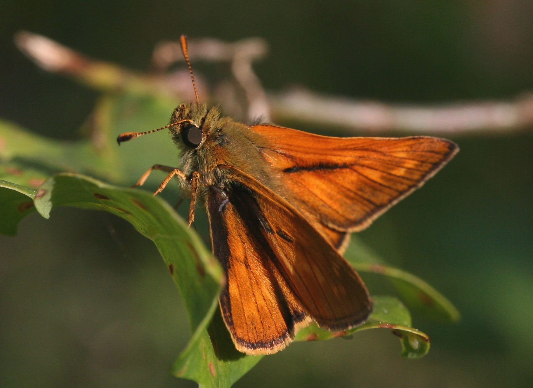 Ochlodes sylvanus 13 June 2006 IJmuiden, the Netherlands